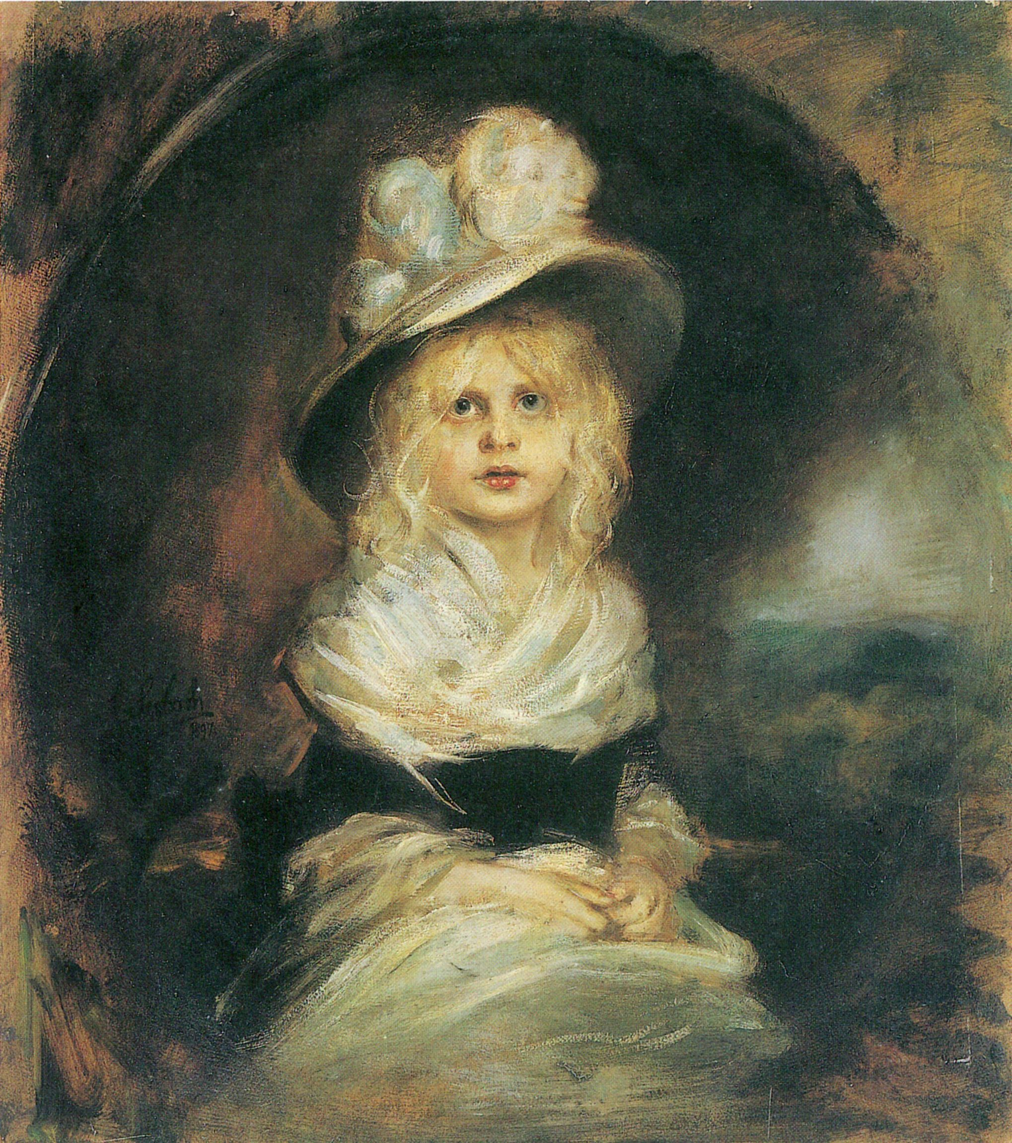 Franz von Lenbach, Portrait of daughter Marion, 1897. Private property, family Neven-DuMont.